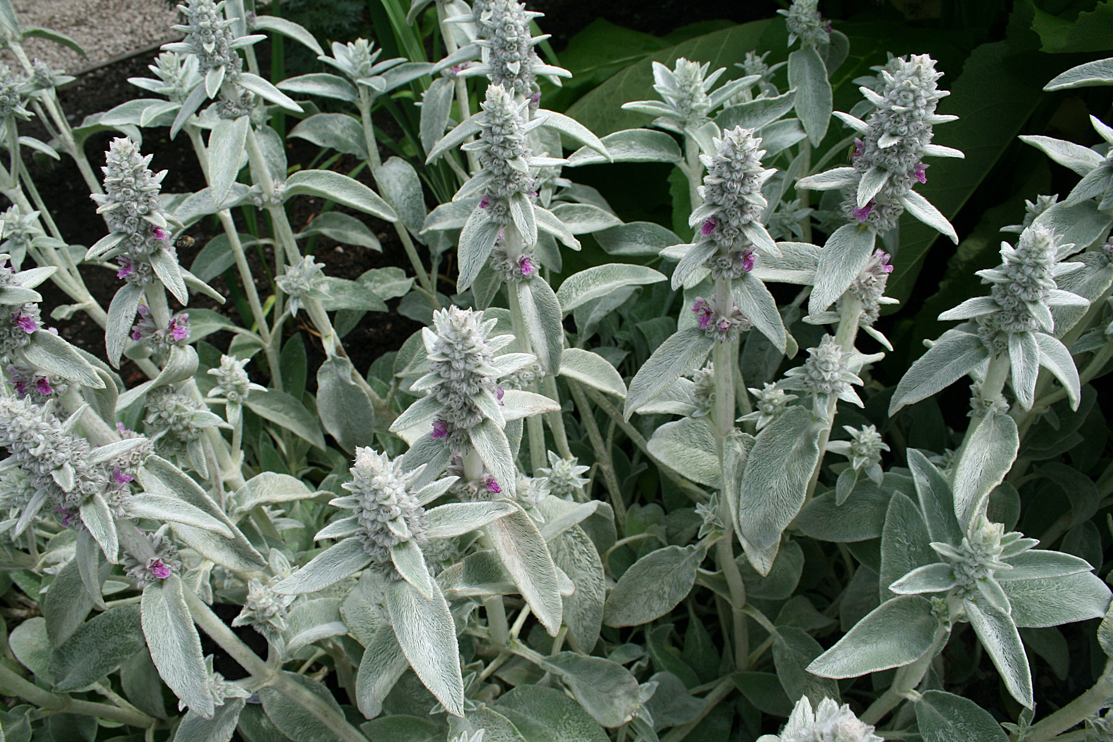 Lamb's Ear